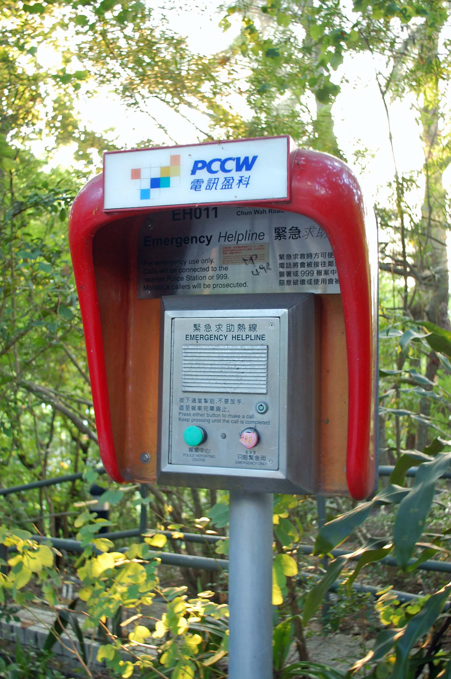 An emergency phone on the hill upon which sits the Kwun Tong High Level Service Reservoir.